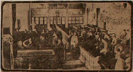 CUP's leaders, Enver, Djemal, and Talaat, were involved in ordering the deportations and massacres of 1 and 1.5 million Armenians in 1915–1916 in what became known as the Armenian Genocide. After World War I and the signing of the armistice of Mudros, the leadership of the Committee of Union and Progress and selected former officials were court-martialled with/including the charges of subversion of the constitution, wartime profiteering, and the massacres of both Armenians and Greeks. The court reached a verdict which sentenced the organizers of the massacres, Talat, Enver, Cemal and others to death.